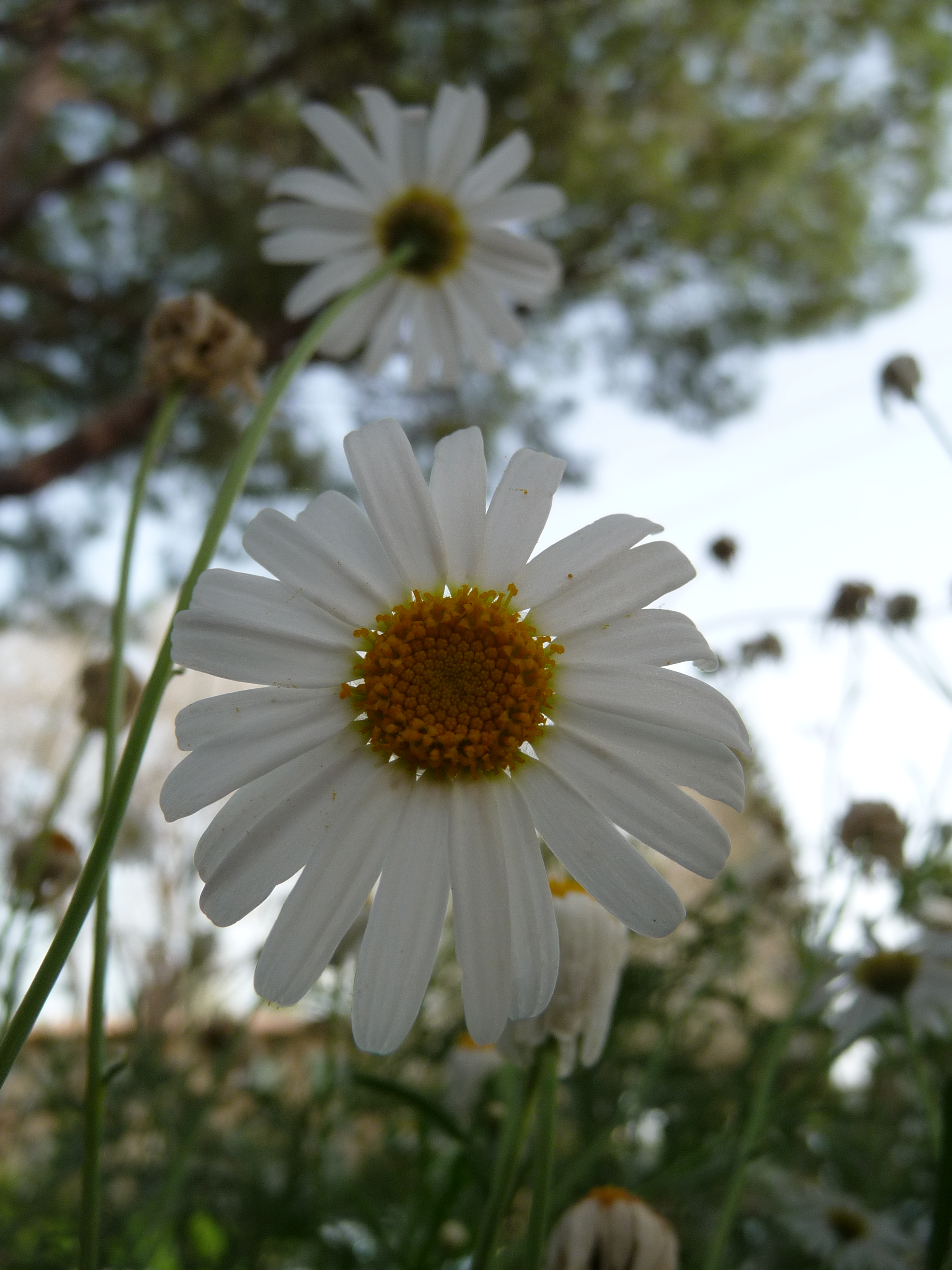 Beit Oren is a kibbutz in northern Israel. It falls under the jurisdiction of Hof HaCarmel Regional Council.